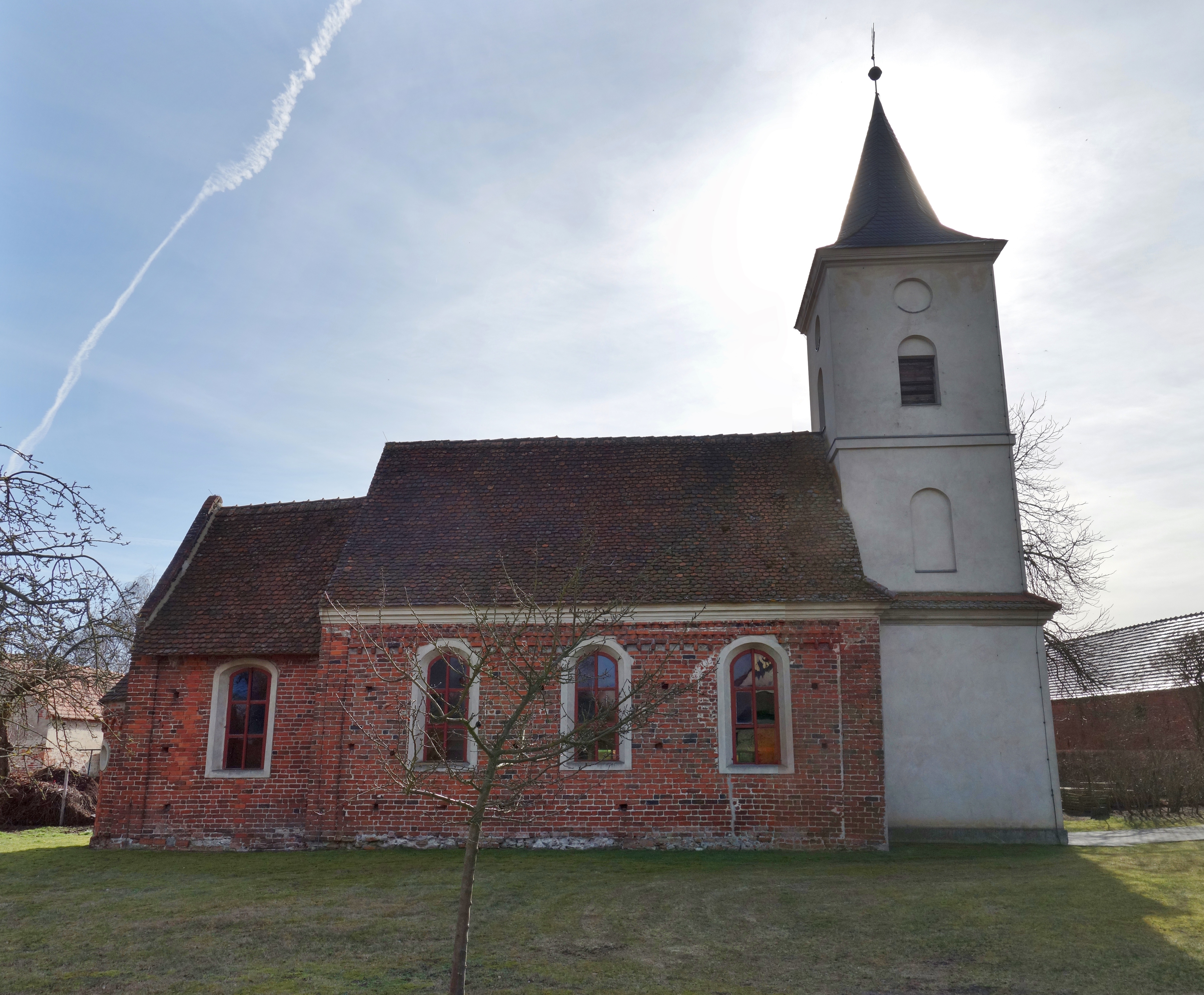 Northern view of church in Bützer, Milower Land municipality, Havelland district, Brandenburg state, Germany.